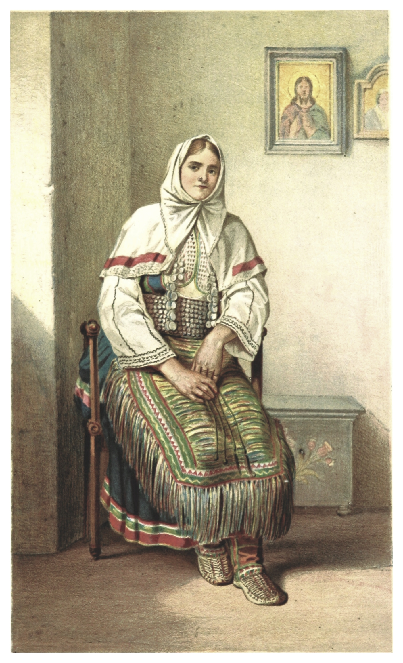 Image extracted from page 21 of Die Serben an der Adria. Ihre Typen und Trachten. (1870) by Louis Salvator, Erzherzog von Österreich. Original held and digitised by the British Library. Copied from Flickr. Note: The colours, contrast and appearance of these illustrations are unlikely to be true to life. They are derived from scanned images that have been enhanced for machine interpretation and have been altered from their originals.